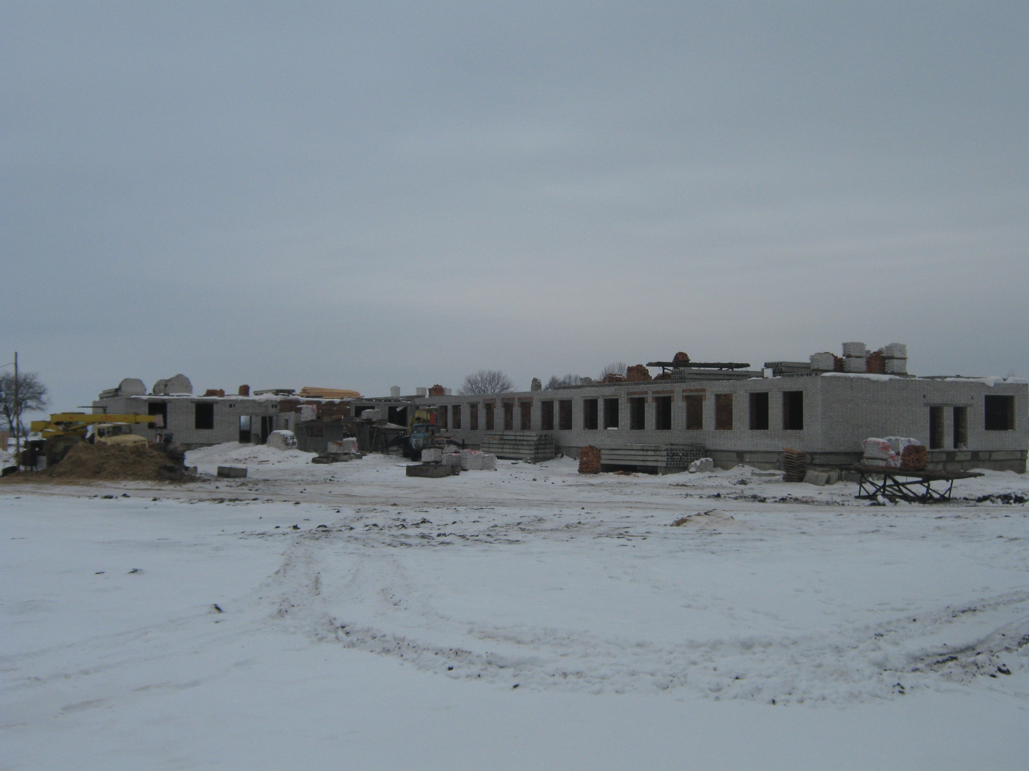 будівництво школи 2